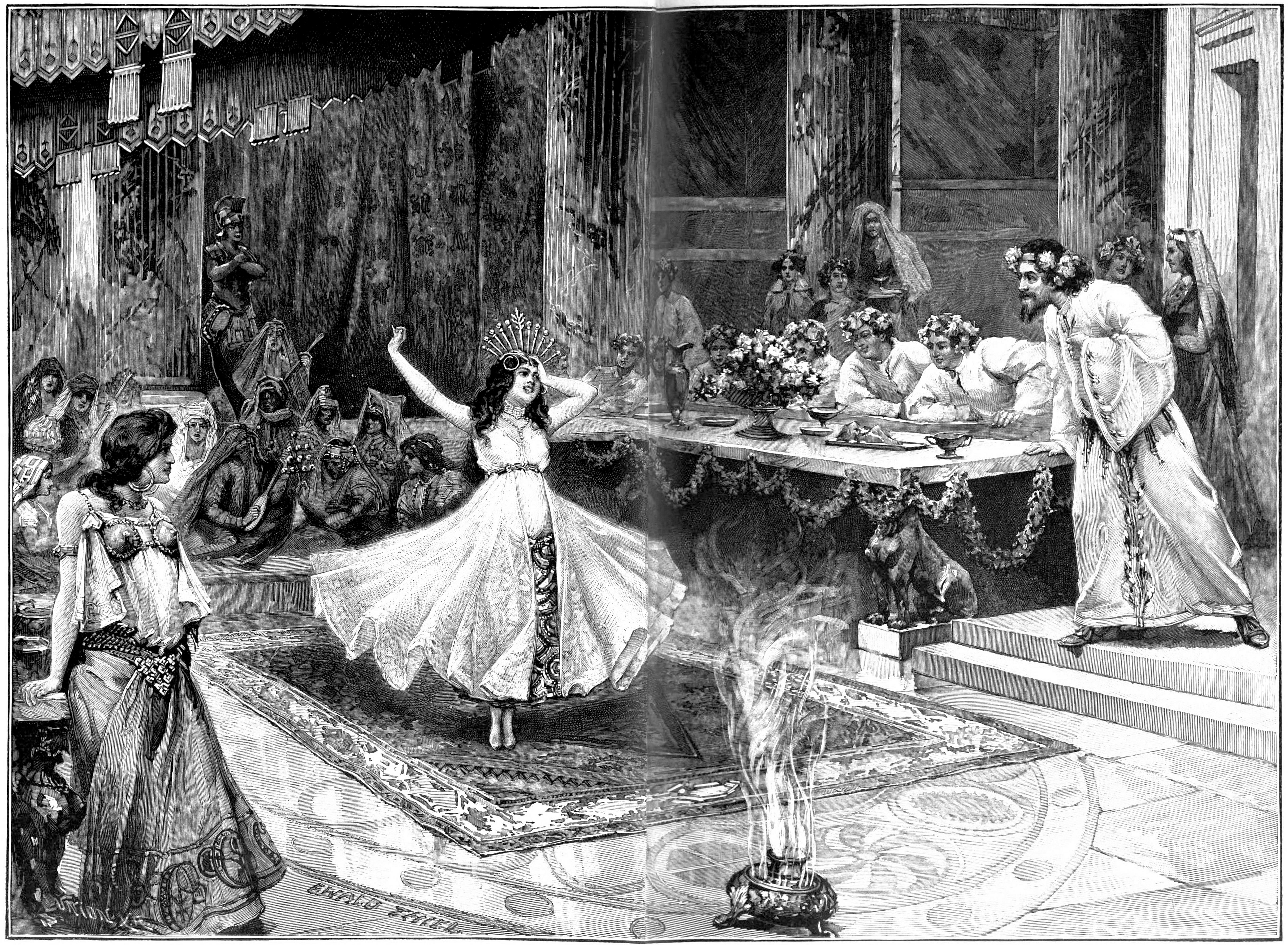 caption: "Salome tanzt vor Herodes Scene aus der Sundermanntragödie „Johannes“. Nach der Aufführung im „Deutschen Theater zu Berlin“ gezeichnet von E. Thiel."